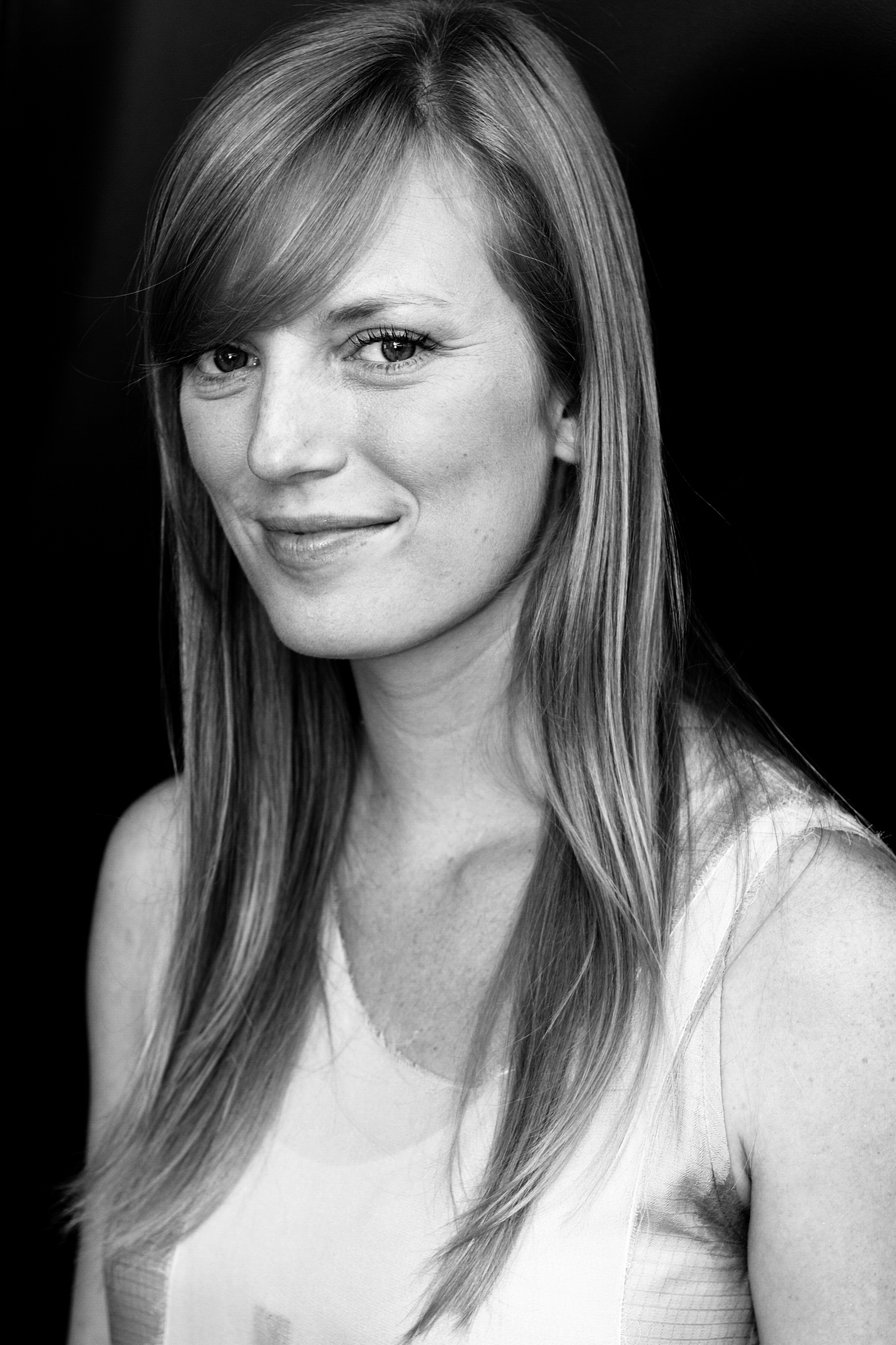 Actress and film director Sarah Polley - 66th Venice International Film Festival.